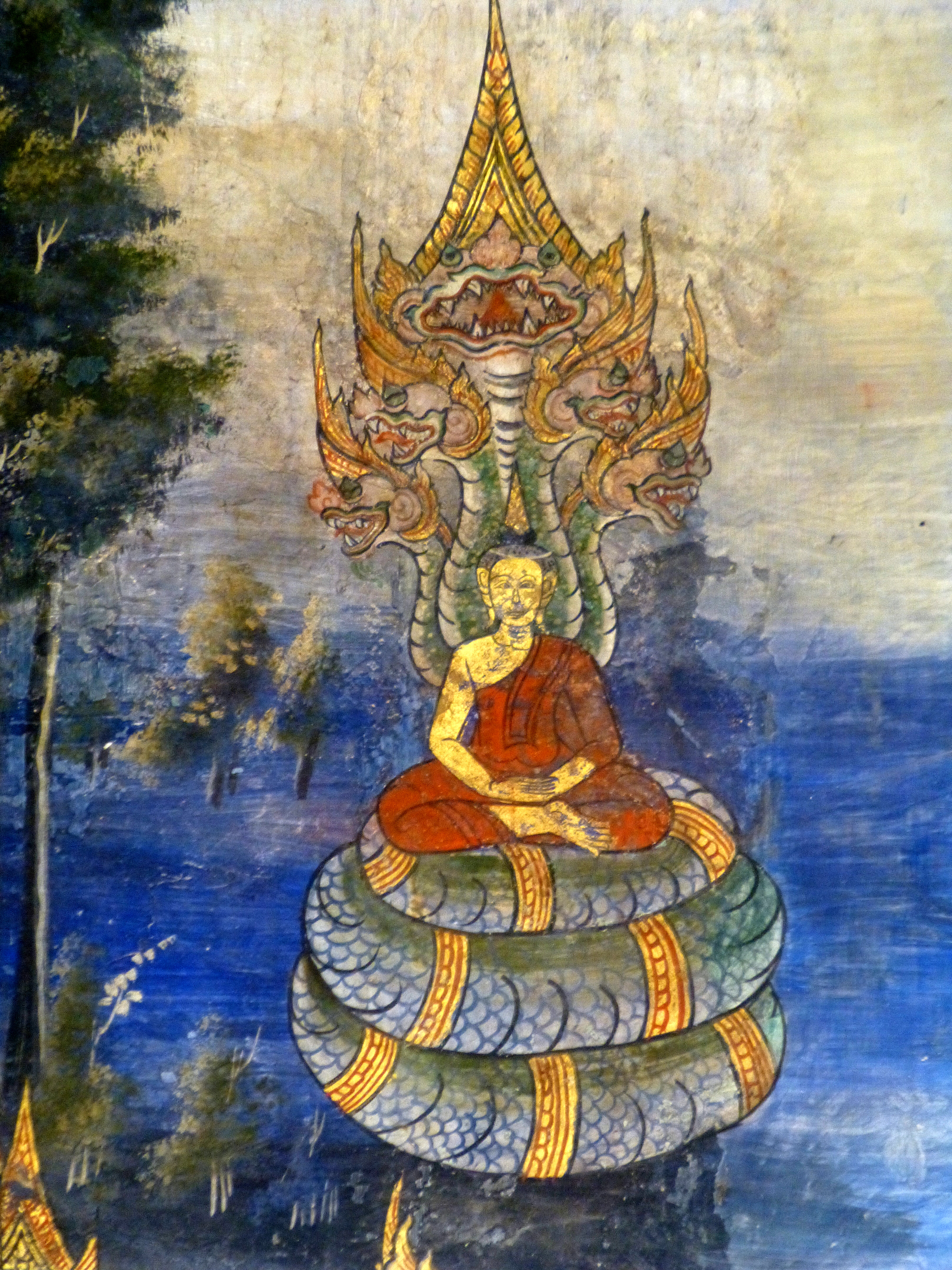 090 Mucalinda protects Buddha (detail), Wat Kasattrathirat, Ayutthaya